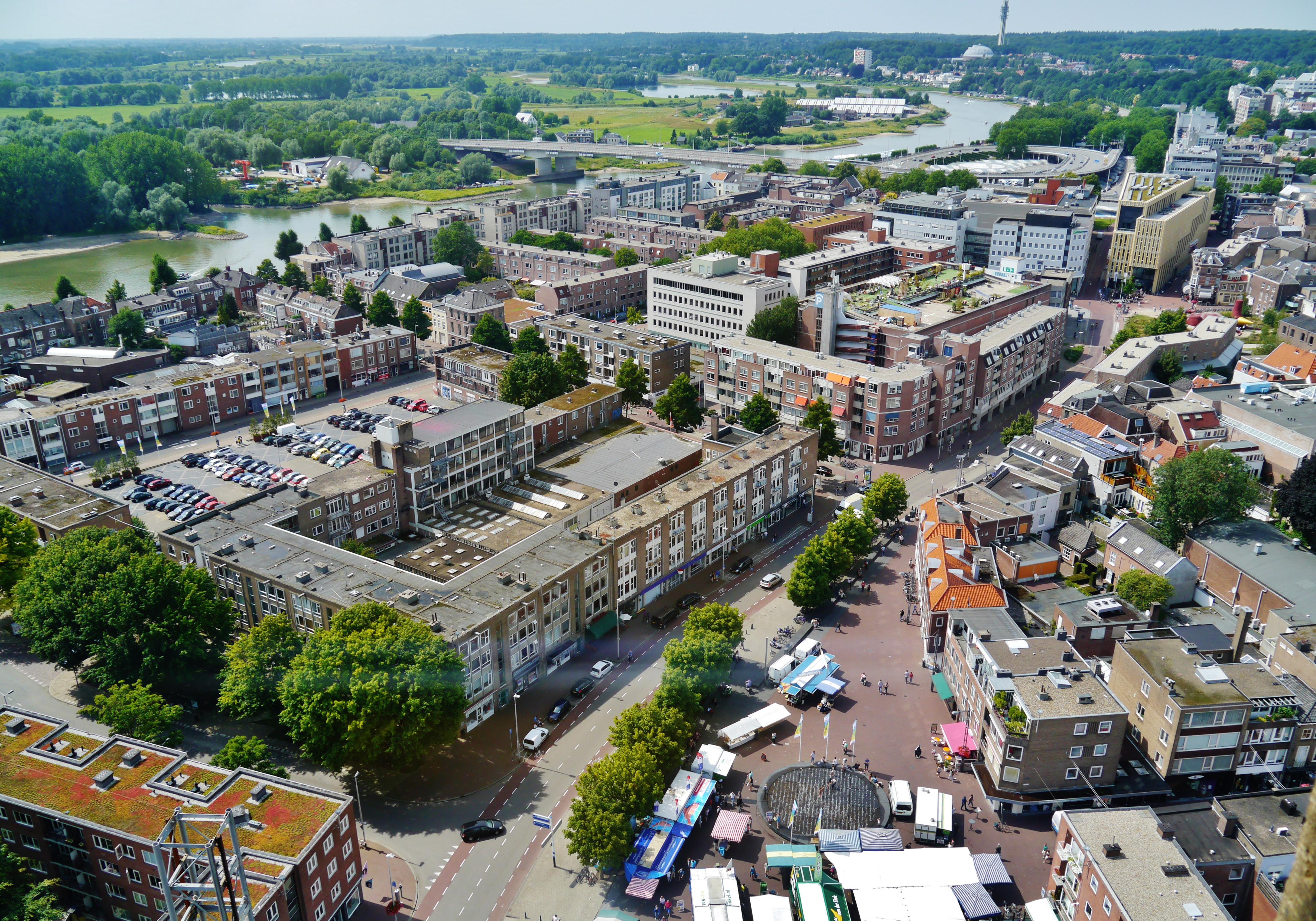 View from the Tower of the Grand Church St. Eusebius, Arnhem, Province of Gelderland, Netherlands